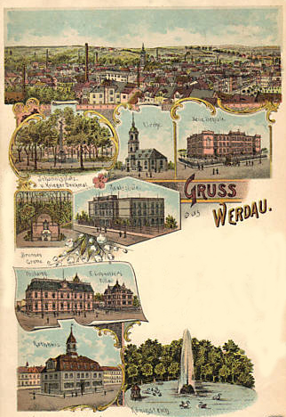 This is an old picture postcard of Werdau in Saxony (Germany).